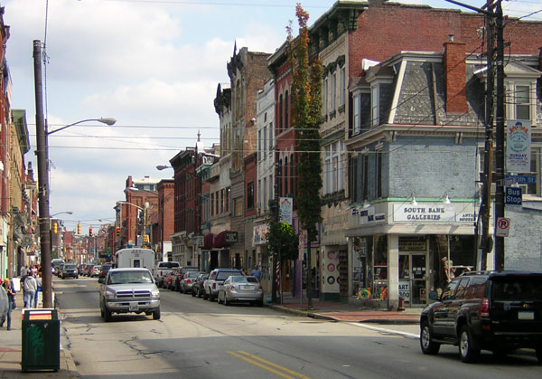 Picture of East Carson Street in the South Side Flats neighborhood of Pittsburgh, Pennsylvania, on October 4, 2008. The image was taken near the corner of East Carson and 13th Streets, facing East. This is located in the East Carson Street Historic District, which is listed on the National Register of Historic Places. Many of the buildings in this area were built circa 1870s to 1900s.